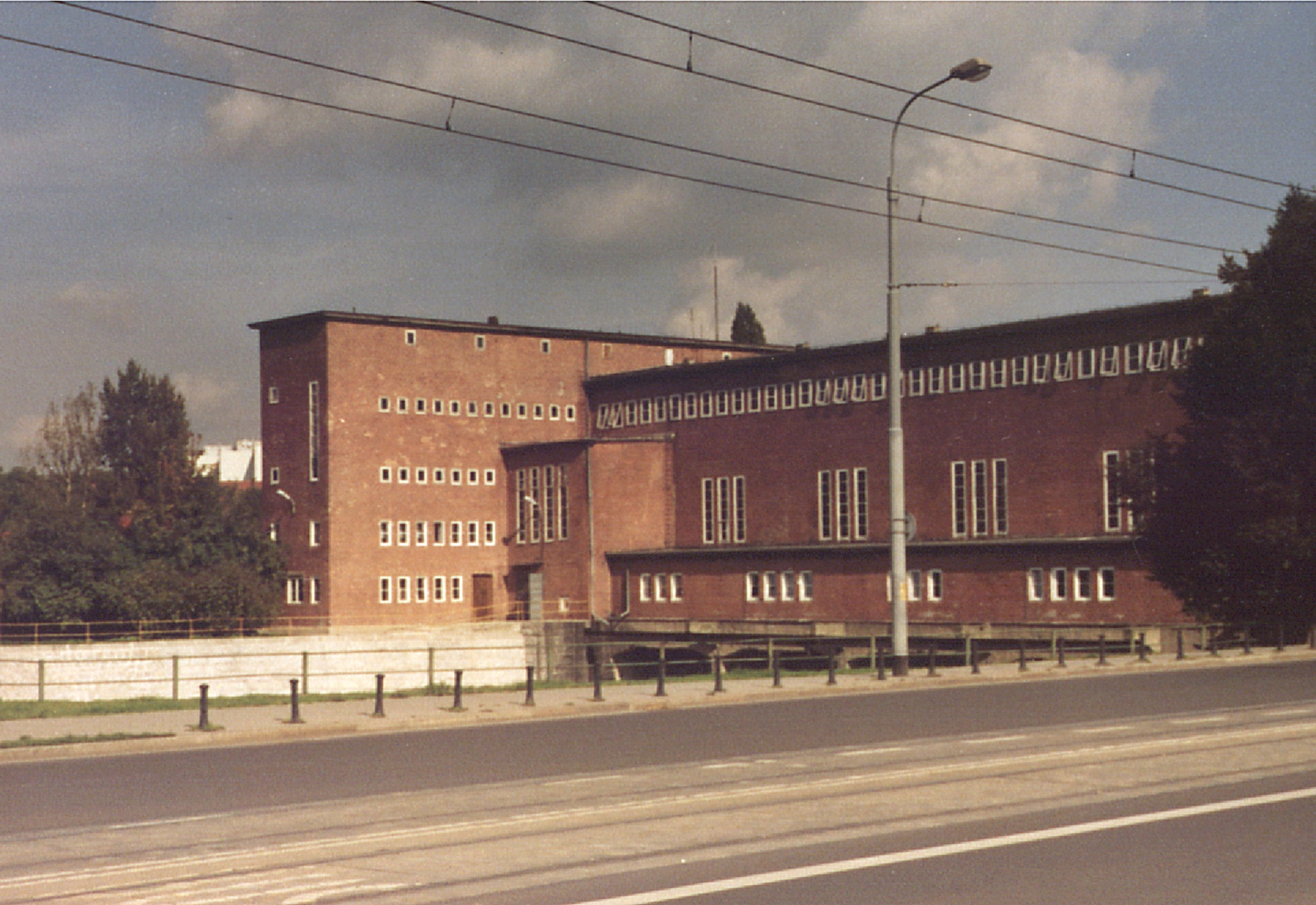 Power station on the Odra River by Max Berg, Wrocław, Poland. About 1919, Modern movement.